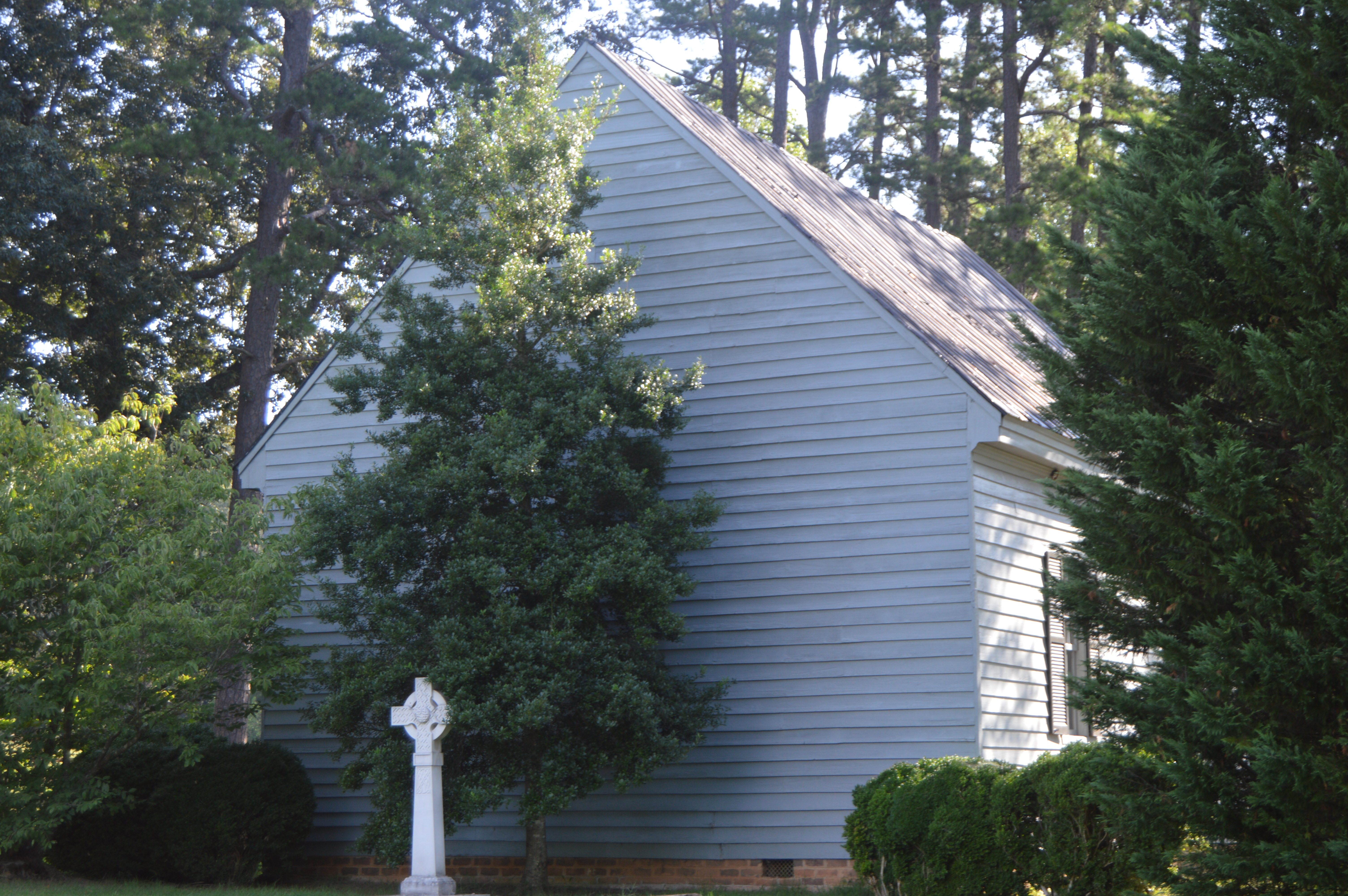 Front and southern side of Old Providence Presbyterian Church, located at the intersection of Cole Ferry and Morton's Ferry Roads east of Nathalie in Halifax County, Virginia, United States. Built in 1830, it is listed on the National Register of Historic Places.